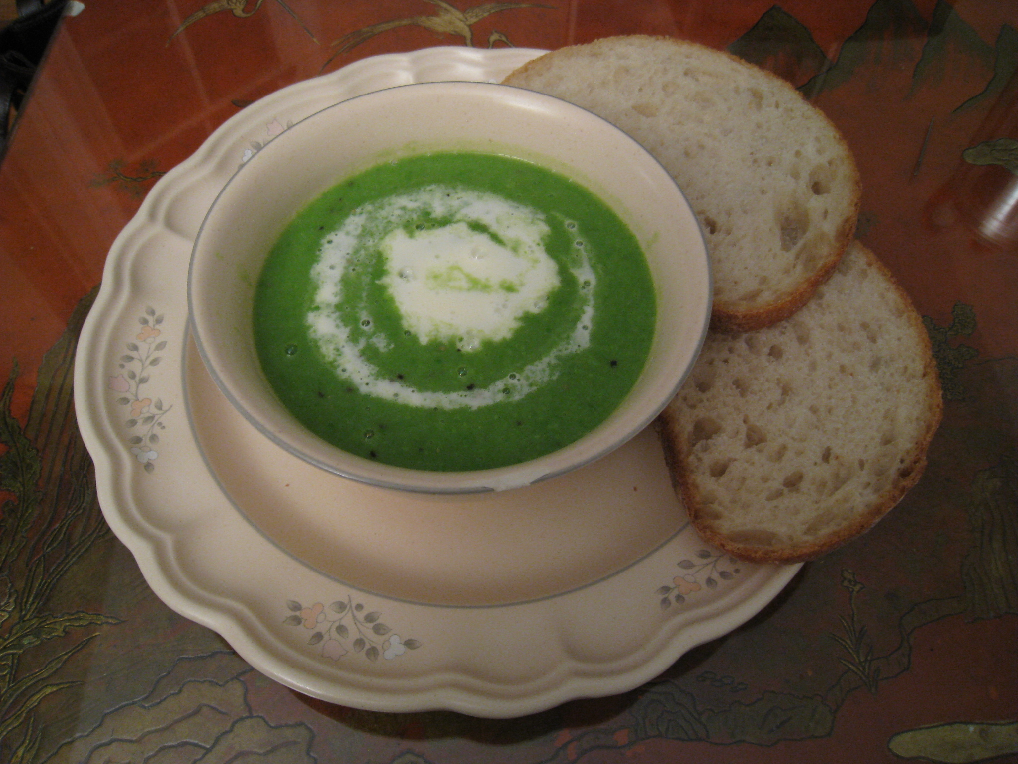 Spring pea soup, with creme fraiche galaxy. The recipe was pretty good, but not exceptional.